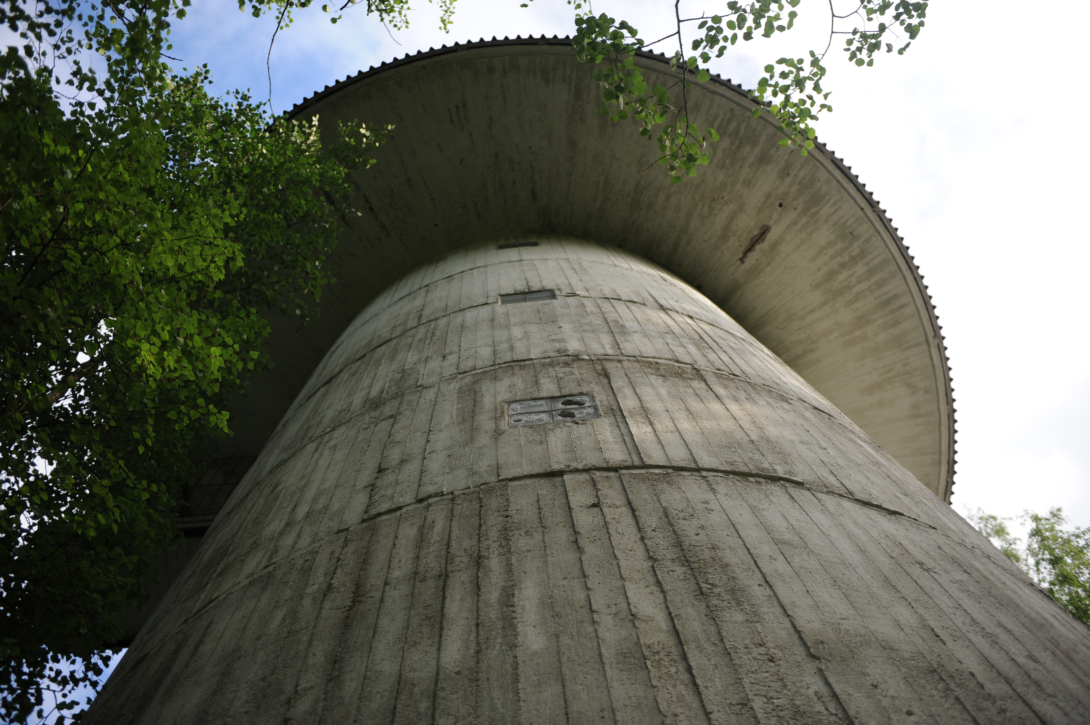 Lakiston vesitorni is a water tower in Espoo, Finland.